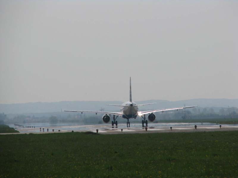 Runway Zagreb Airport